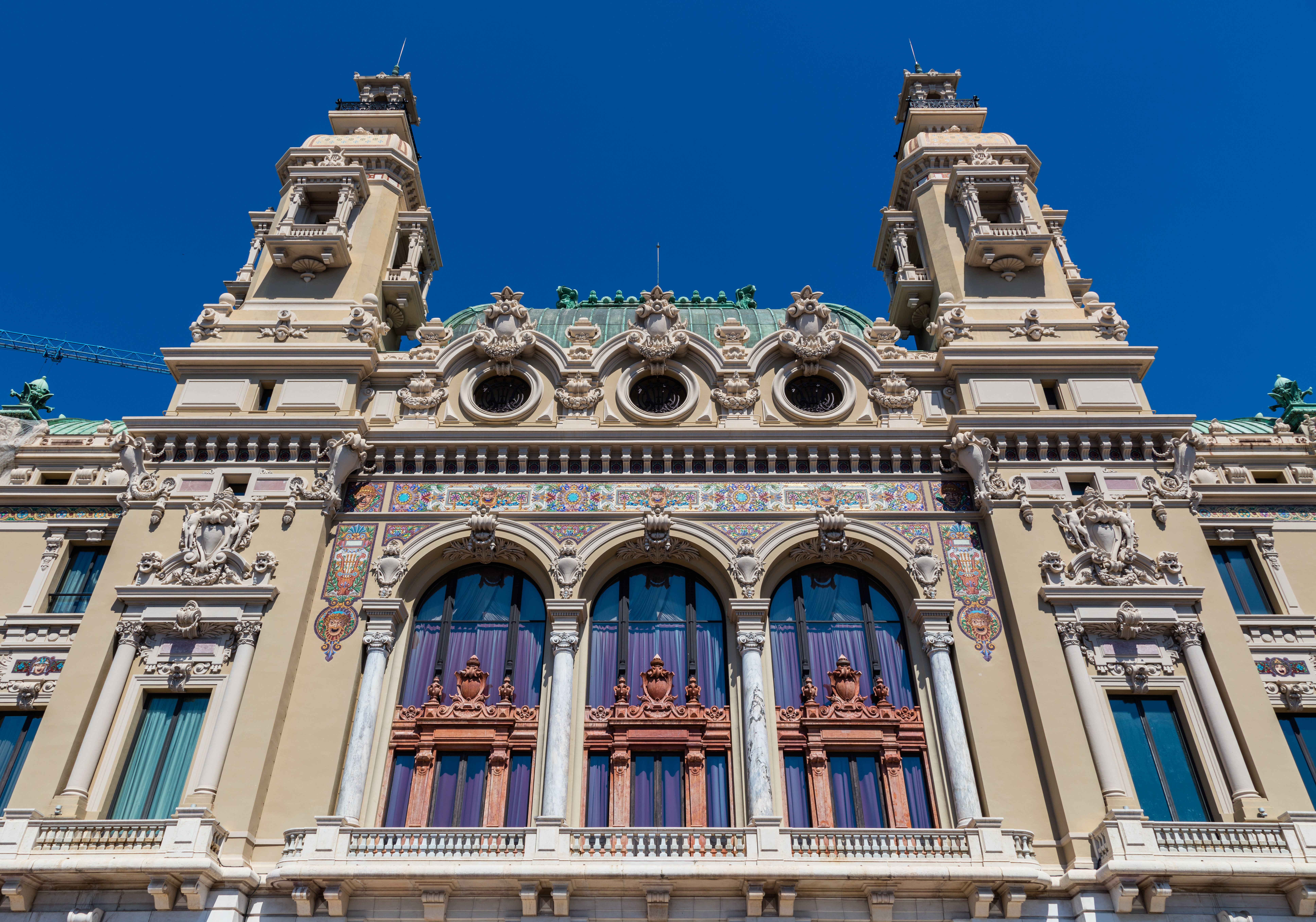 Monte Carlo Casino, Monaco